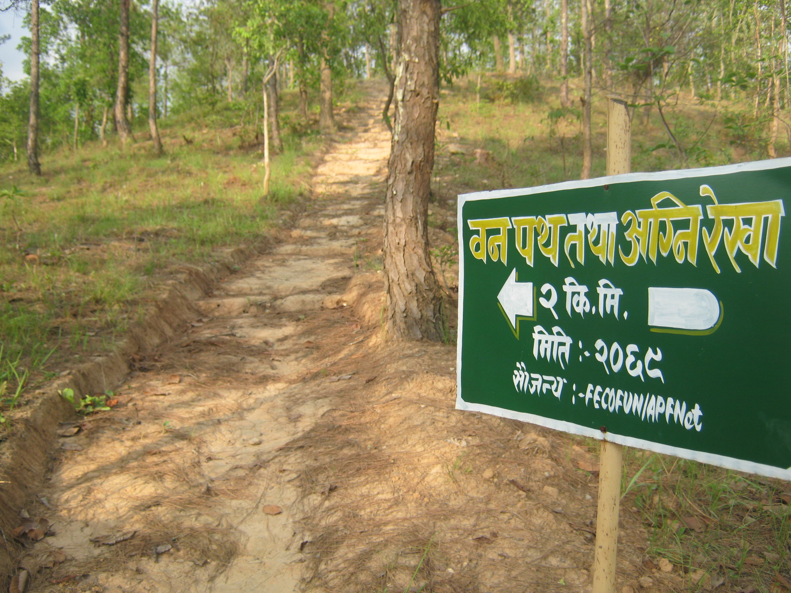 Firebreak in a community forest in Panchkhal valley.